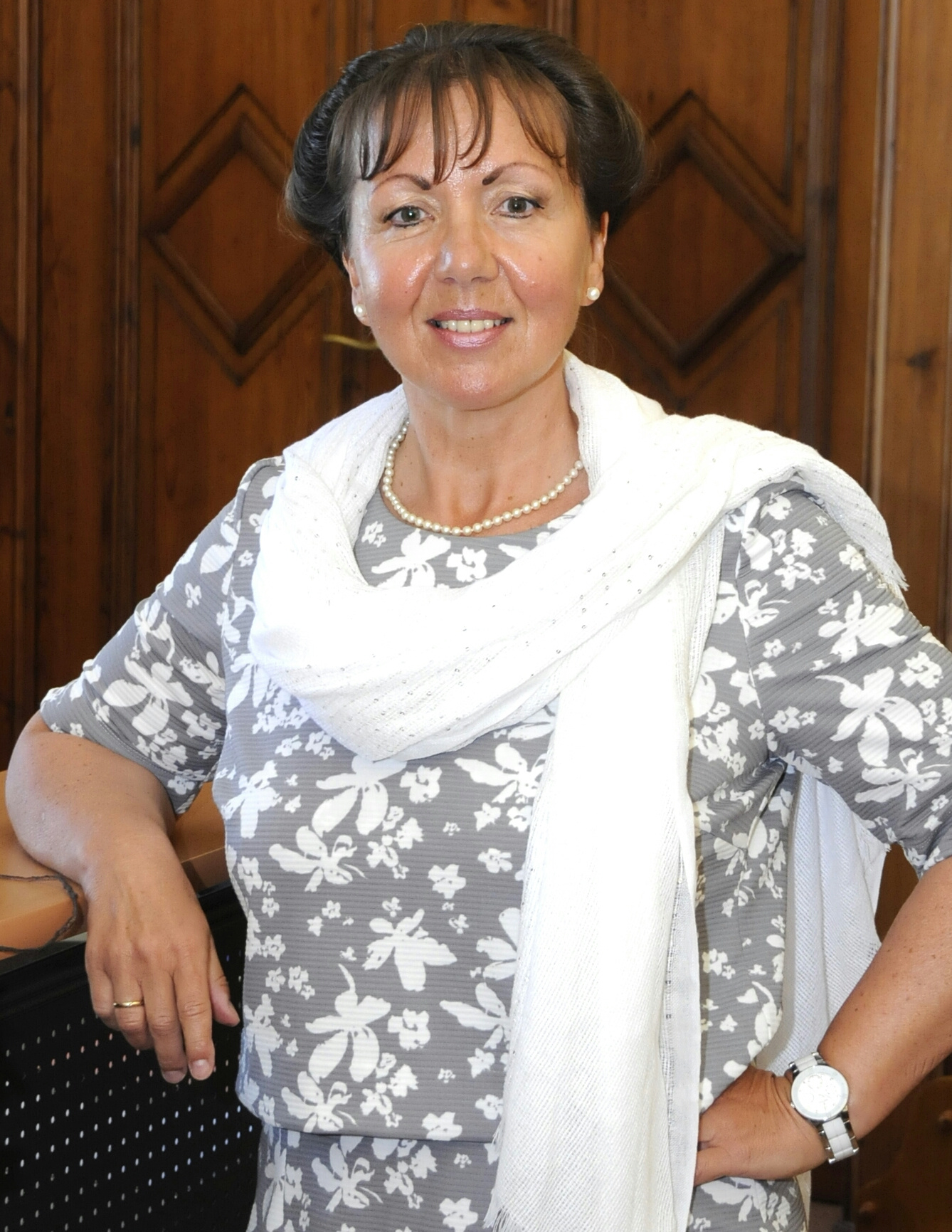 Diana Salow, German author